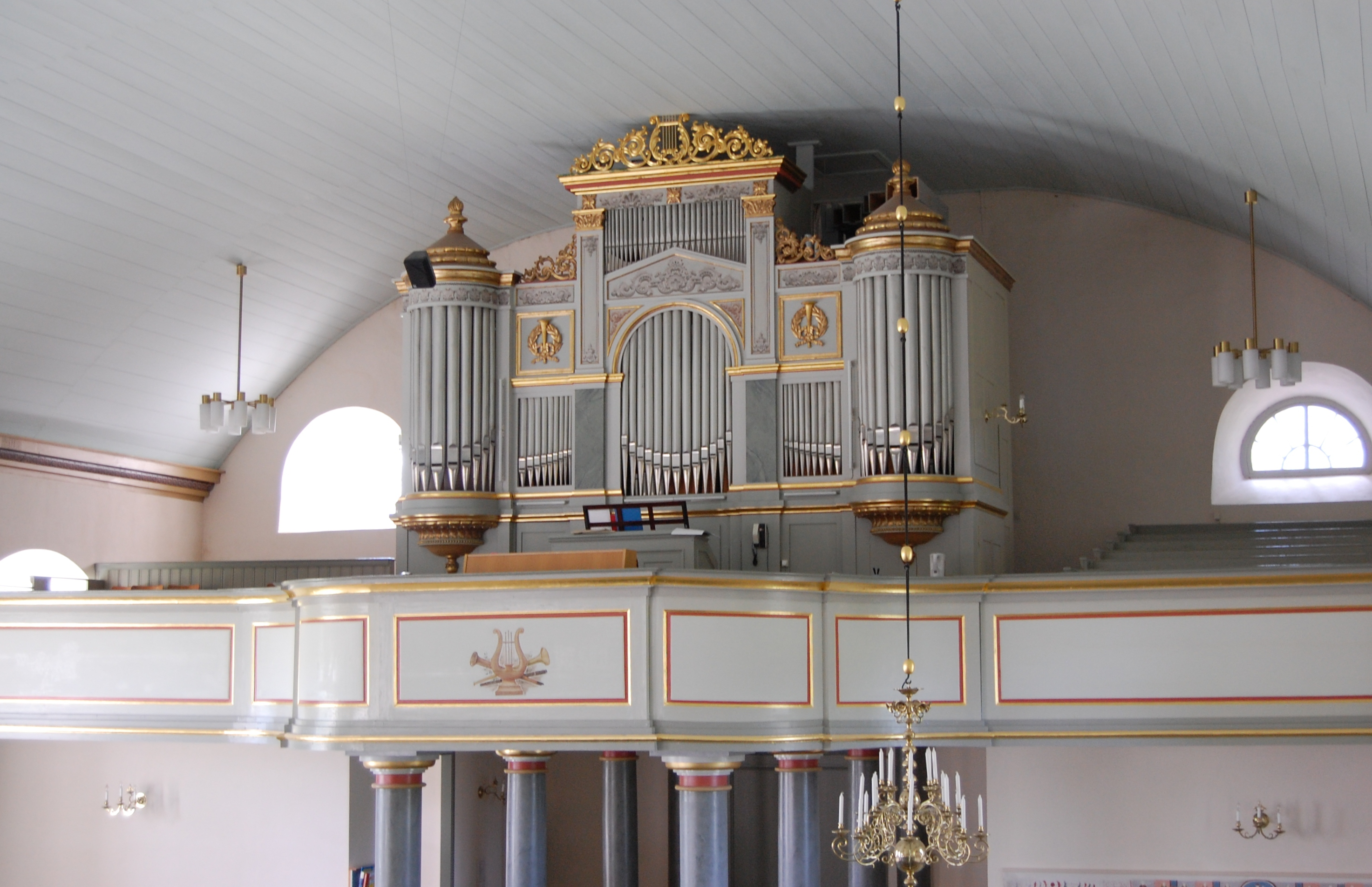 Nöbbele Church.Organ.